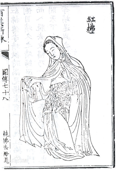 Hong Fu Nü, or the Lady with Red Sleeves. She is a legendary Chinese folk hero from imperial China.